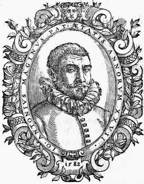 Giovanni Antonio Magini (1555-1618), Italian mathematician